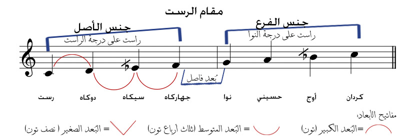 Rast is the name of a maqam (musical mode) in Arabic and related systems of music.